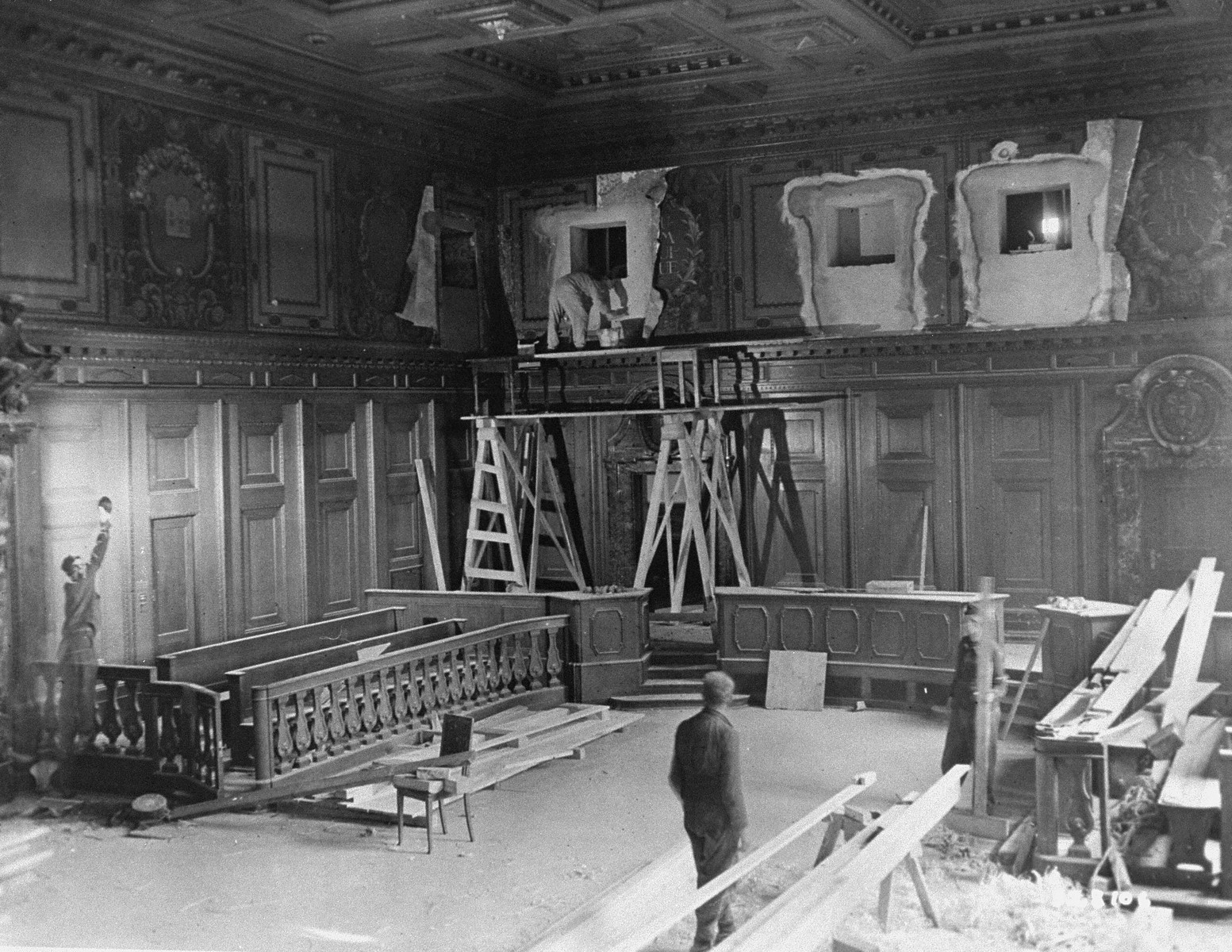 for use in trial